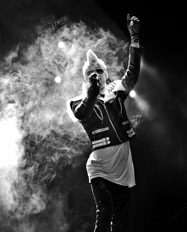 Jared Leto of Thirty Seconds to Mars Performing live in Enschede (The Netherlands) during the TMF Music Awards.